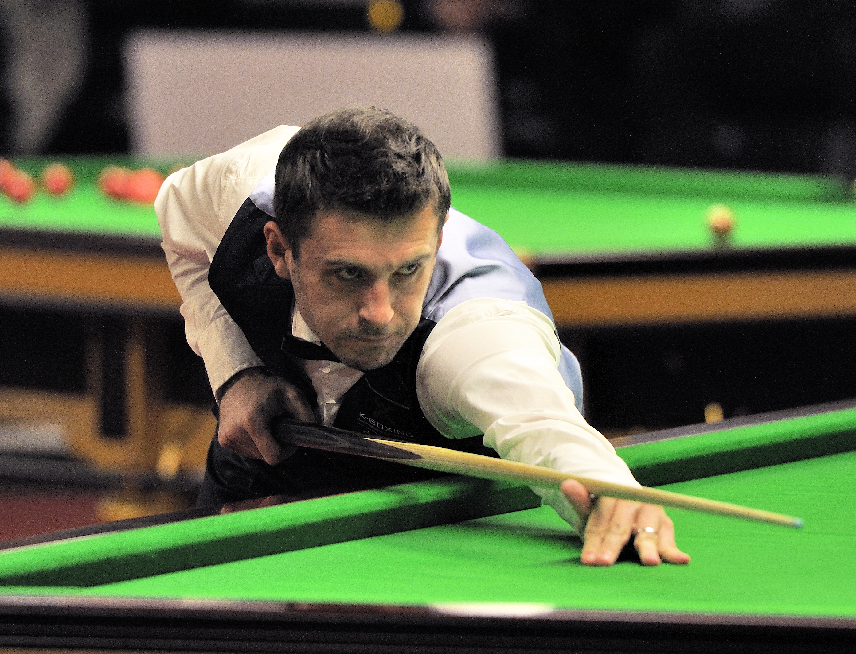 Picture taken in Berlin during the Snooker German Masters in 2014. Mark Selby.